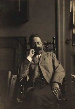 Edvard Petersen (1841-1911), Danish painter